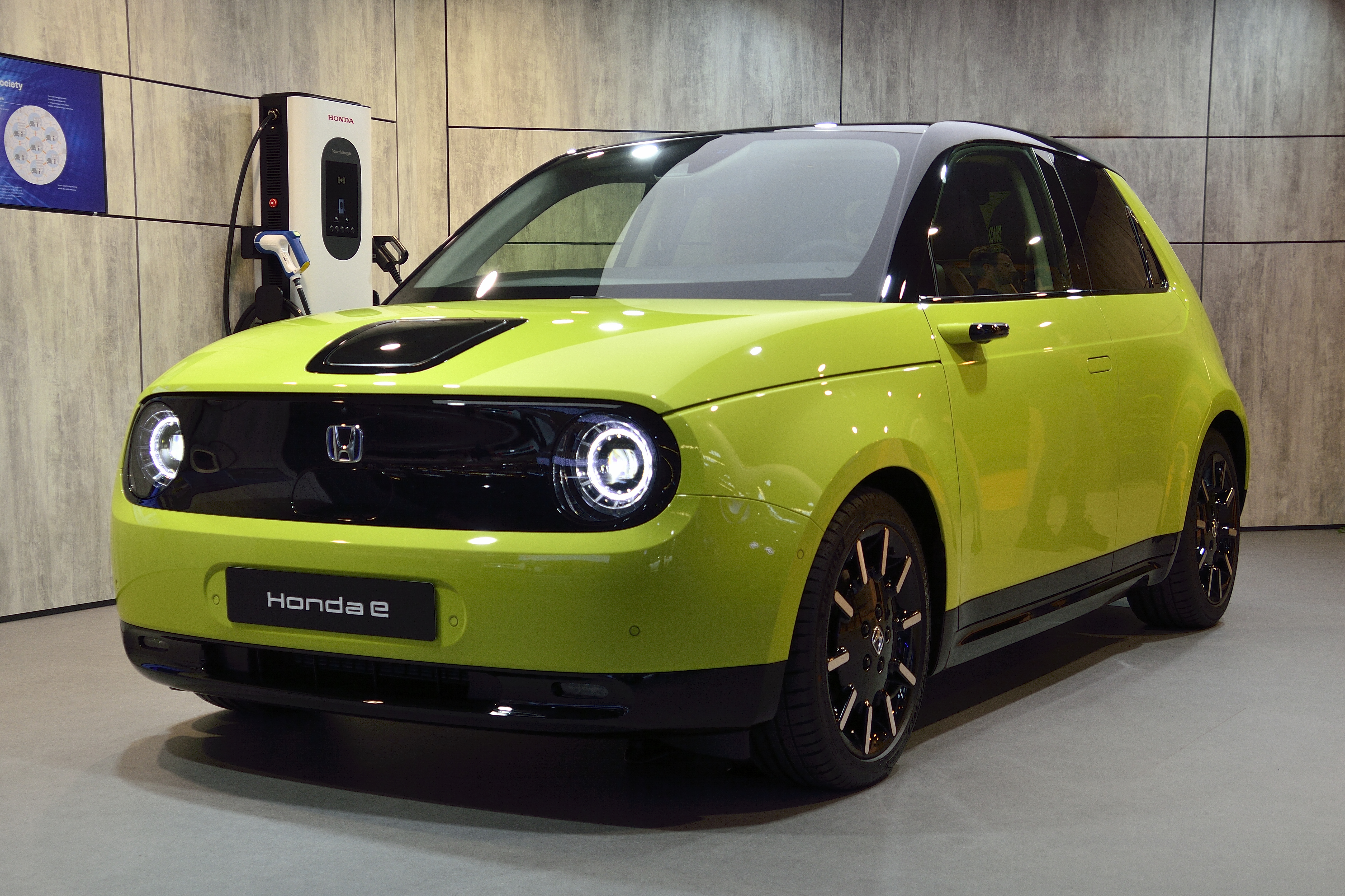 Honda e. Seen at International Motor Show (IAA), Francfort 2019.